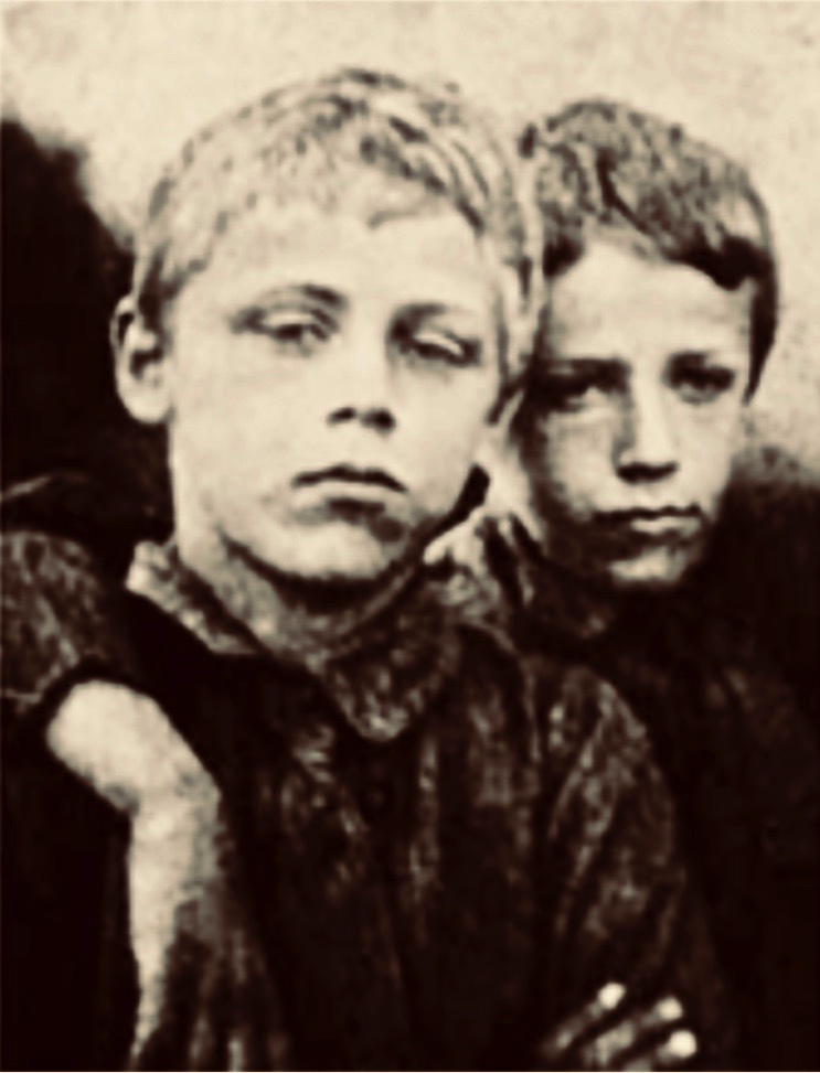 Left to right: Hans Kollwitz (1892–1971) and his younger brother Peter (1896–1914), both sons of Karl (1863–1940) and Käthe Kollwitz (1867–1945).